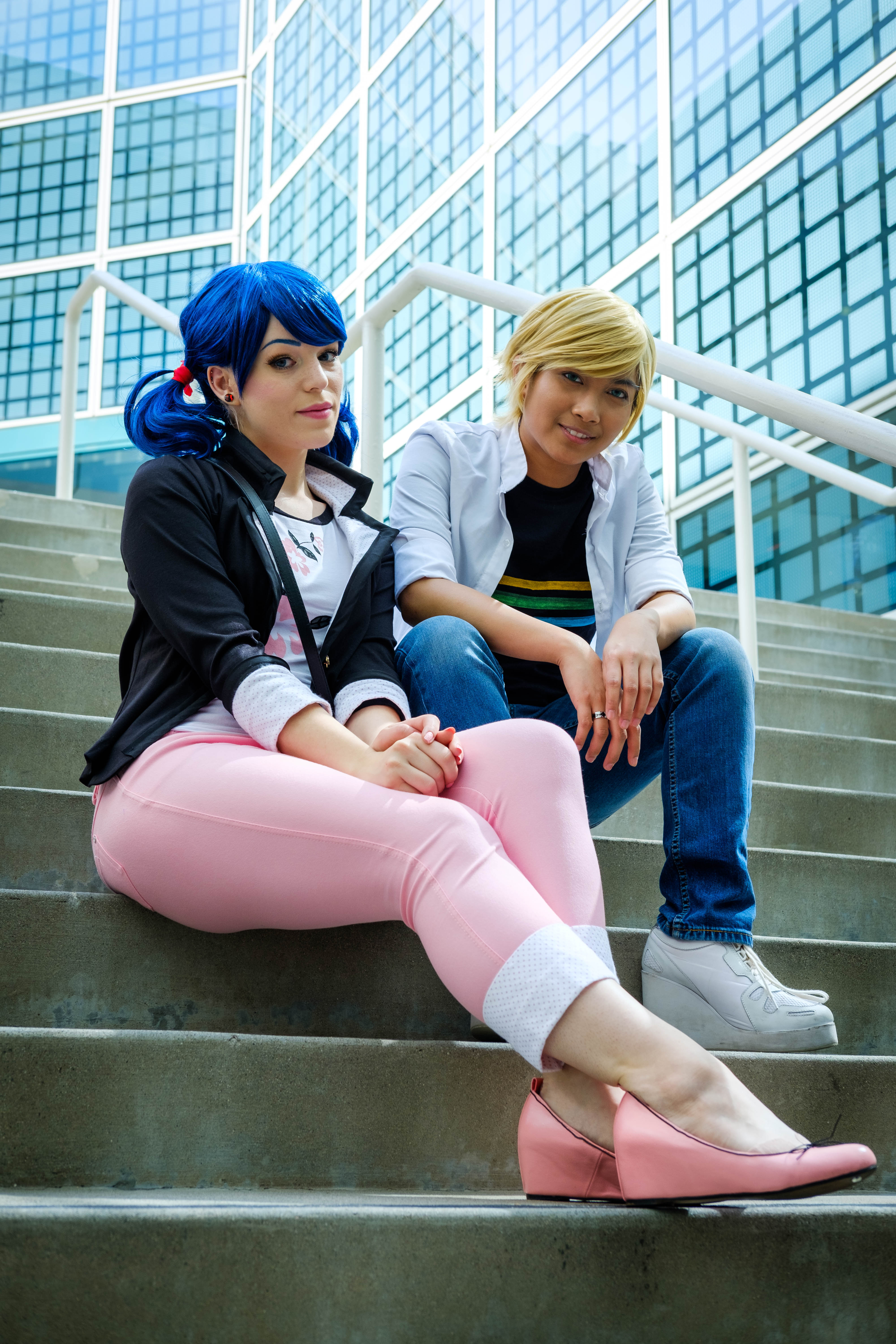 Miraculous cosplayers at Wondercon 2016